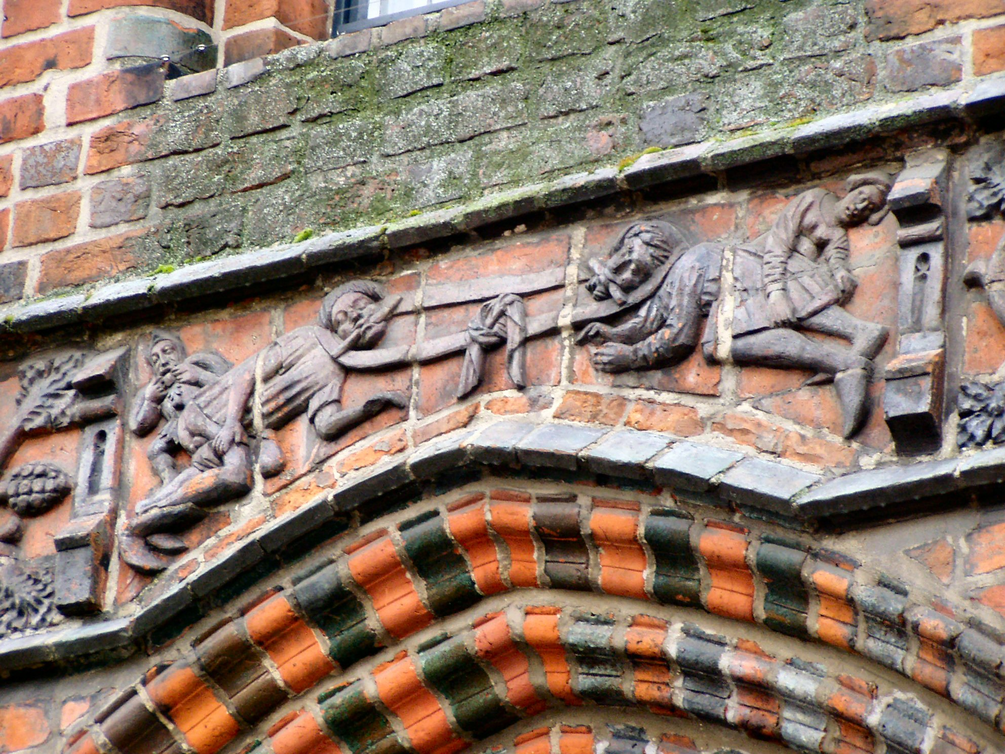 Picture taken during this meeting.